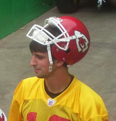 Brodie Croyle of the Kansas City Chiefs at a mini camp open to the public.